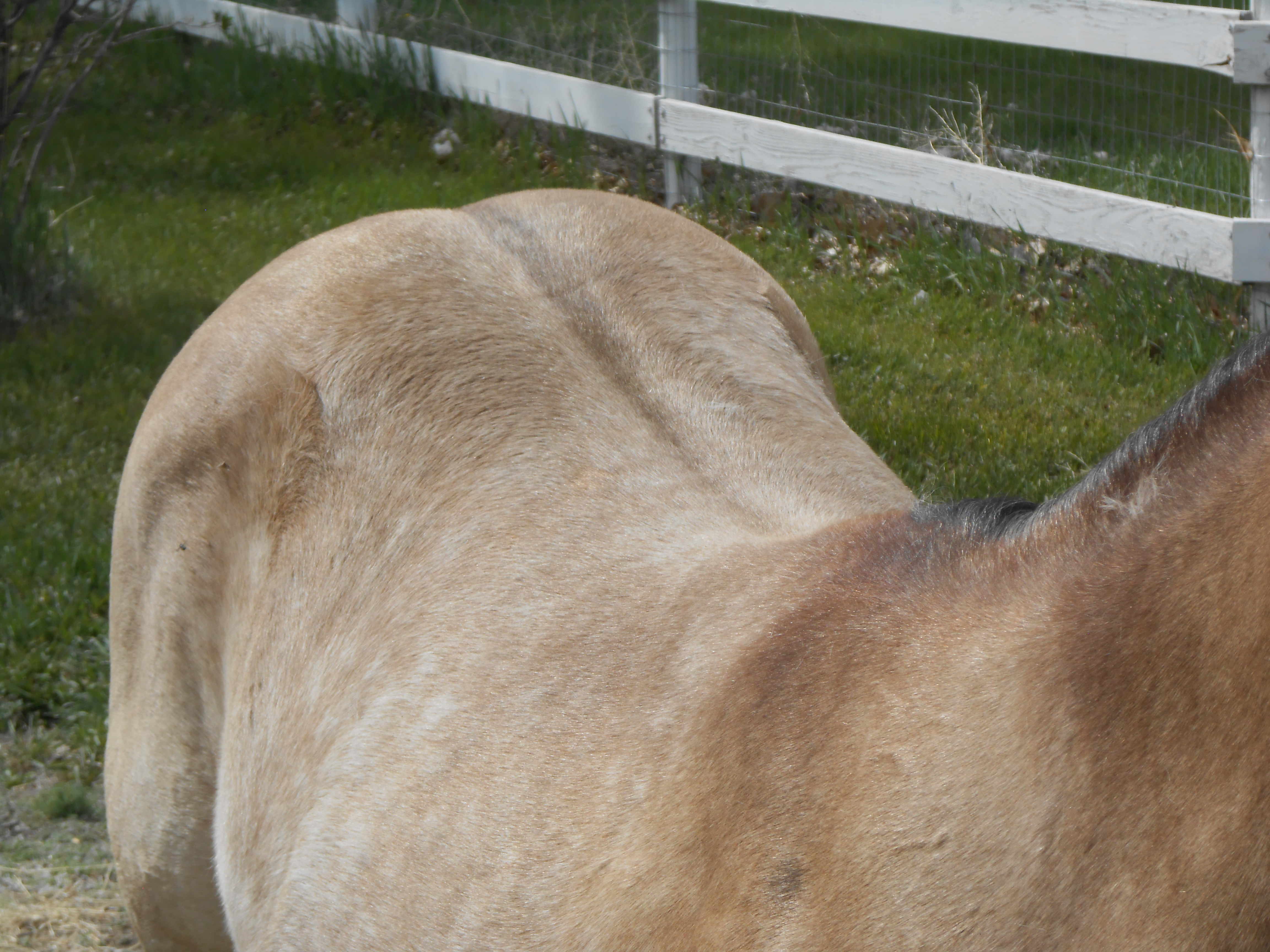 This is a buckskin horse with no known dun genetics, showing a countershading stripe that is not the "dorsal stripe" characteristic of dun-based primitive markings